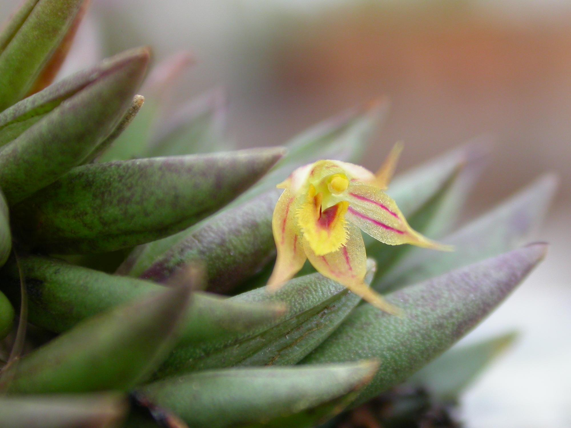 Octomeria aloefolia